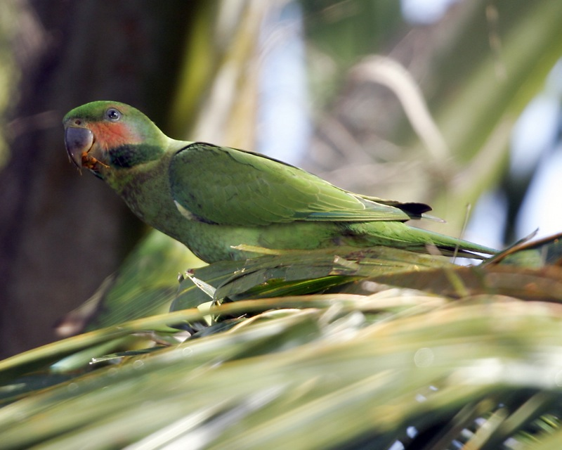 Long-tailed Parakeet (Psittacula longicauda longicauda). A juvenile in Queenstown, Central Singapore on 2 December 2005.